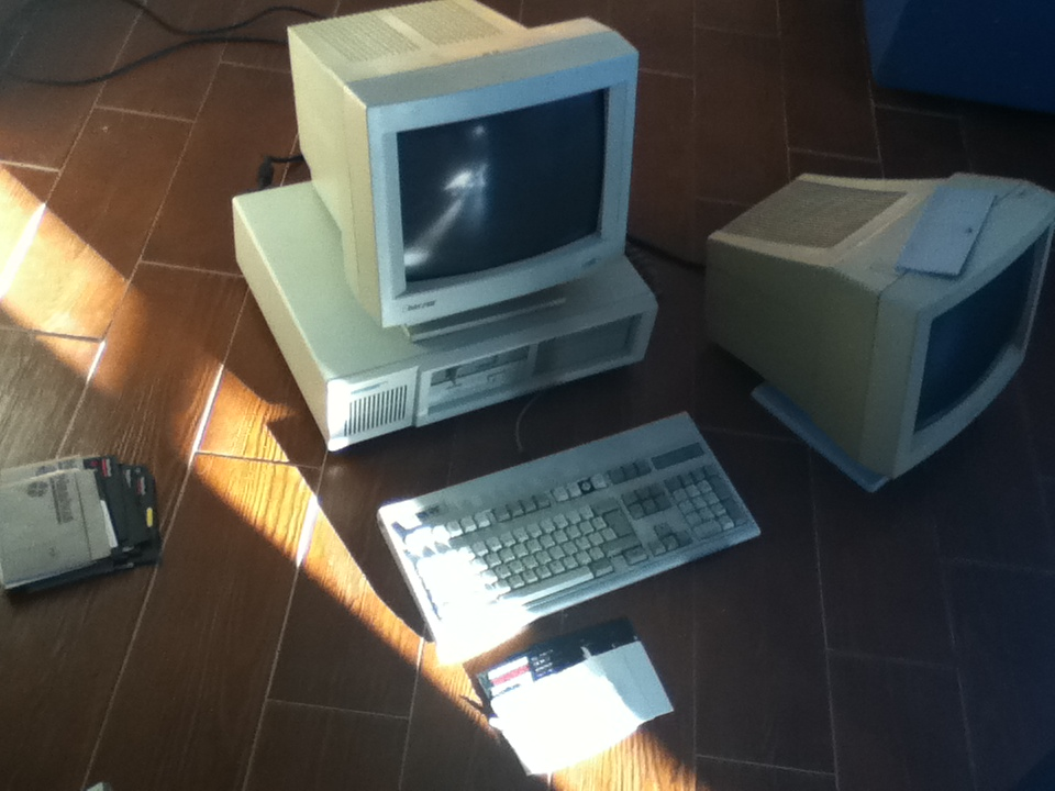 Tandon PCX computer. At middle, the Tandon with the MS-DOS diskettes, a Tandon keyboard and a screen. At left, some diskettes. At right, the original screen.